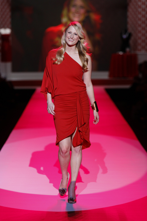 Mamie Gummer in Michael Kors at The Heart Truth's Red Dress Collection 2010